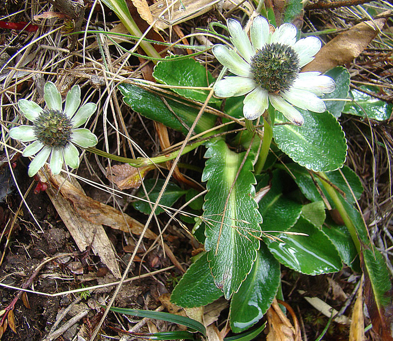 Found in the higher mountains from Bolivia to here in Costa Rica. In context at